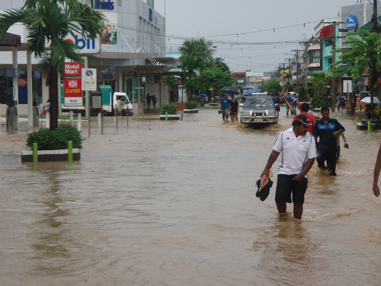 The Streets of Nadi gets flooded after heavy rainfall